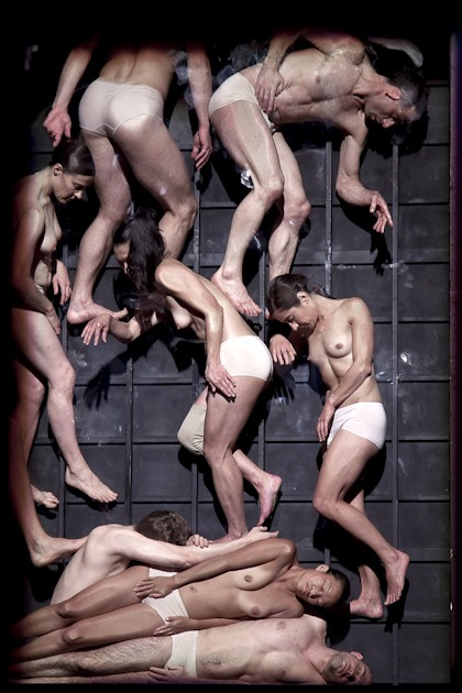 'KORPER' - Sasha Waltz's Australian debut at the 2009 Melbourne Festival. Photo - Ute Zscharnt Gute Gestaltung